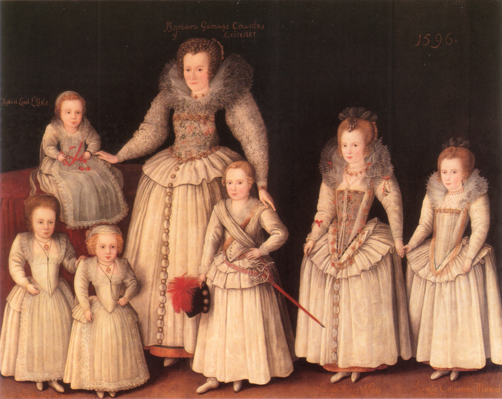 Barbara Gamage, Lady Sidney, later Countess of Leicester, with two sons and four daughters.